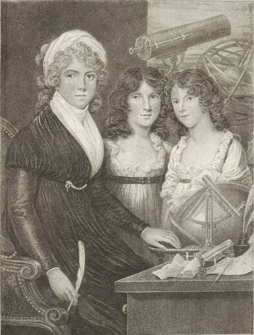 Portrait of Margaret Bryan - Image of educator and author, frontispiece to one of her works.